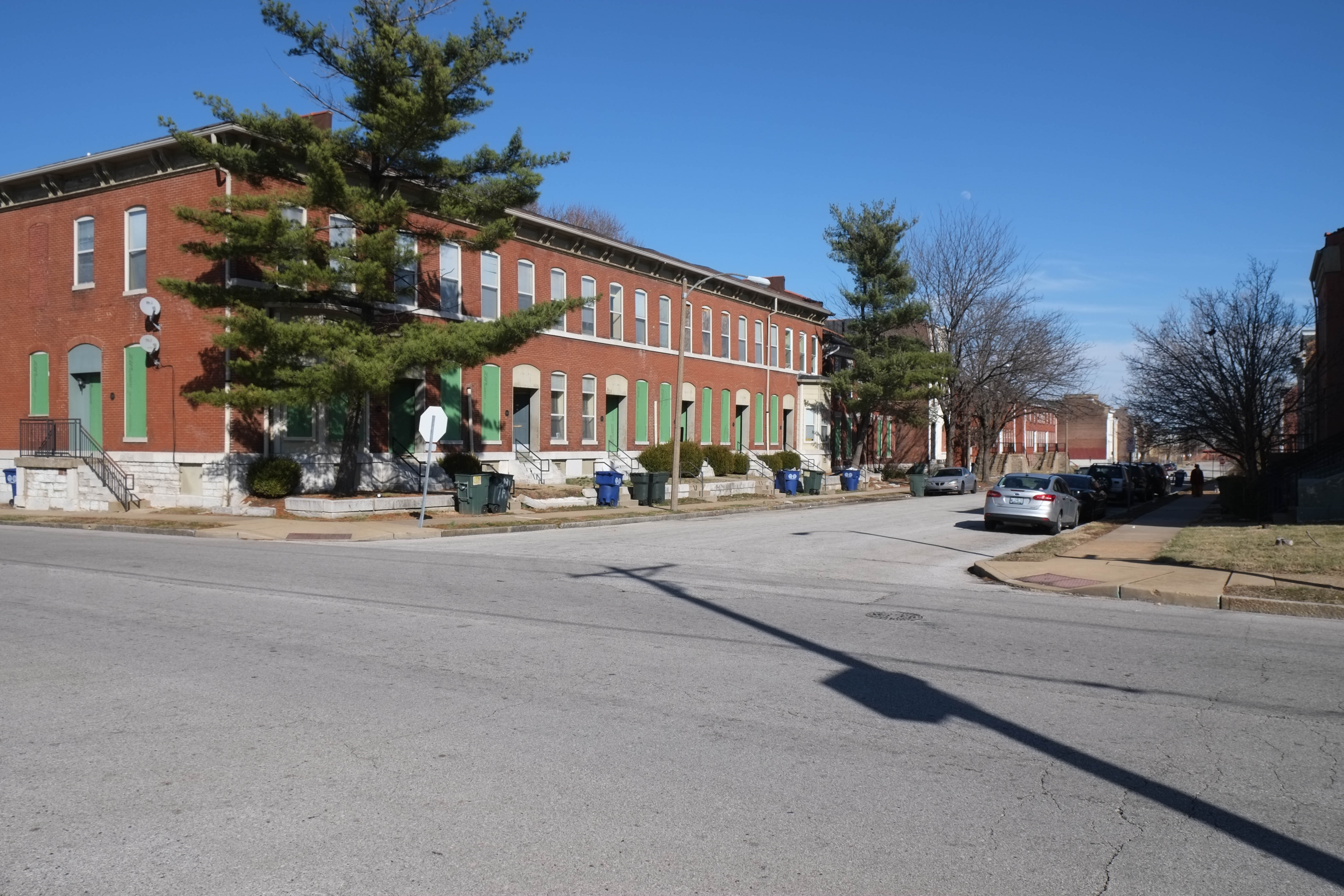 Rowhomes